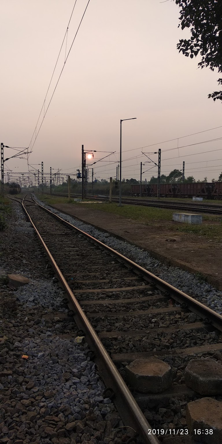 This is the Picture of Kaipadar Road railway station